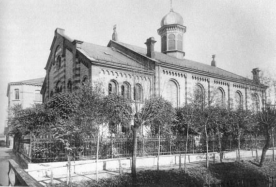 Photography of the synagogue of Eisenach in 1905. The synagogue was destroyed by the Nazis on November 8, 1938.